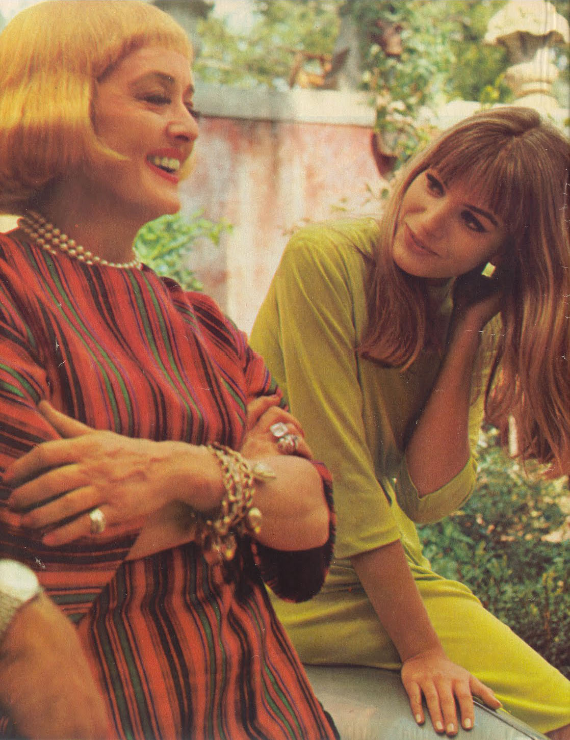 Italy, summer 1963. From left to right: American actress Bette Davis and French-Italian actress Catherine Spaak in a break on the set of the film La noia directed by Damiano Damiani (1963).